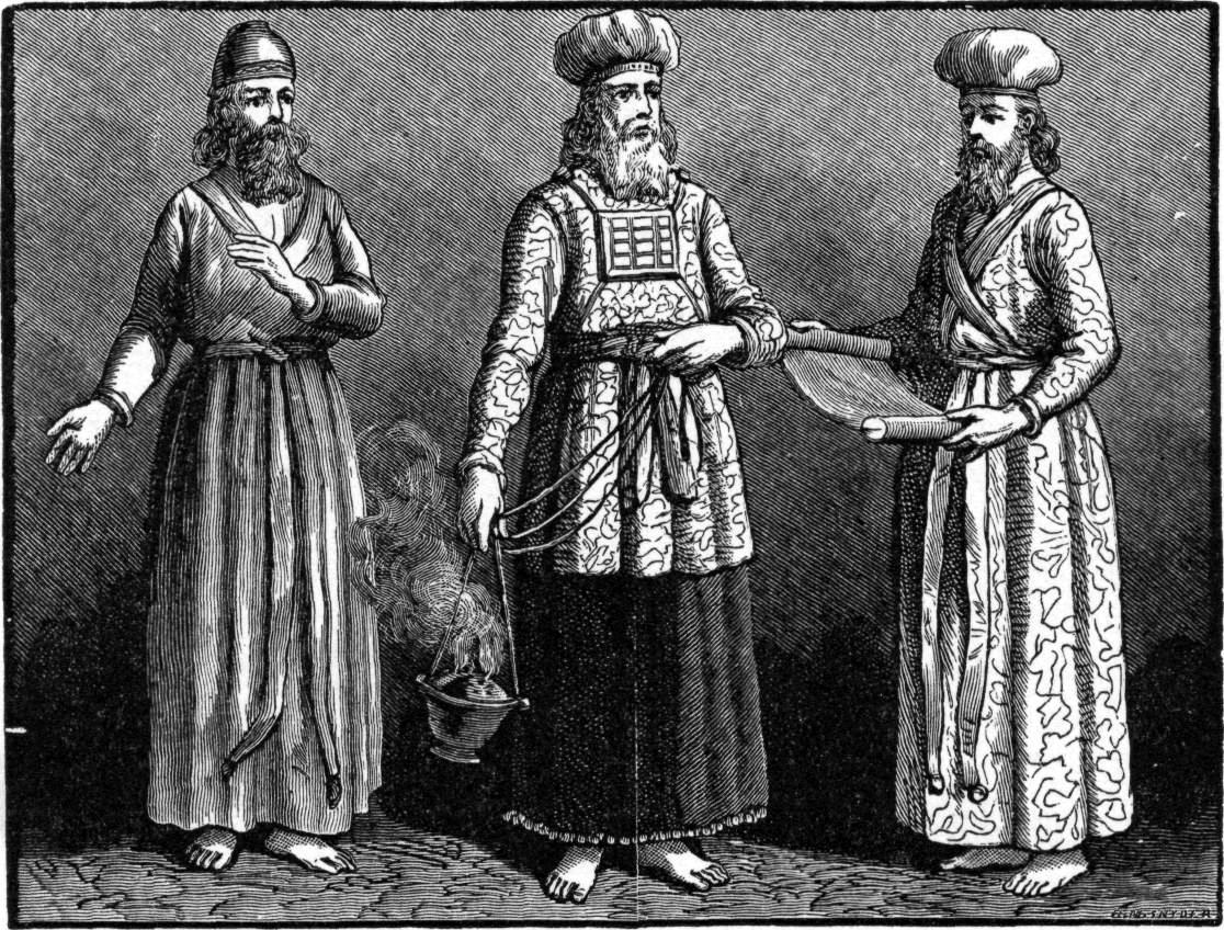 Priests of the Tabernacle. Caption: "These are the ministers, or priests, that stay at the tabernacle, and attend to God's worship there. And they take care of the tabernacle and of all the things that are in it. There are a great many priests who stay at the tabernacle. One of them is called the high-priest. He is the principal one. All the other priests have to mind him. He wears a beautiful dress. We see how he is dressed in the picture." Illustration from the 1897 Bible Pictures and What They Teach Us: Containing 400 Illustrations from the Old and New Testaments: With brief descriptions by Charles Foster